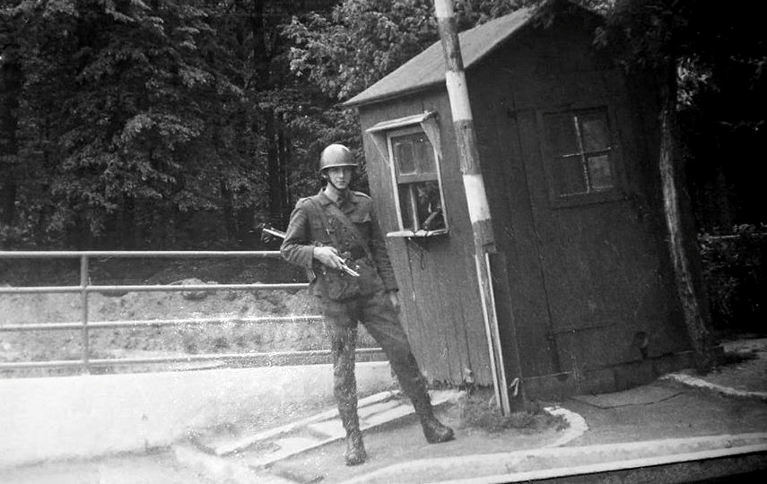 Border Protection Forces in Prudnik